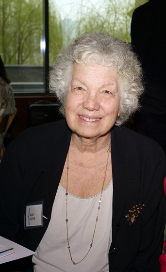 American author Anne Roiphe (left) with Francine Klagsbrun at the Jewish Women's Archive 2012 Making Trouble/Making History Awards Luncheon Photo: Joan Roth